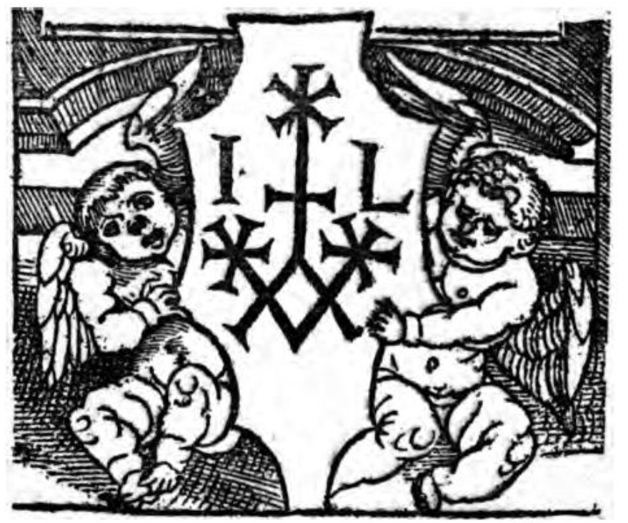 Printer's mark no. 1 of Jacob van Liesvelt